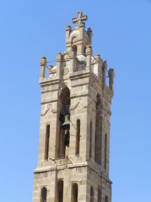 Tower of the Trypiotis church in Nicosia, Cyprus - southern (Greek) part